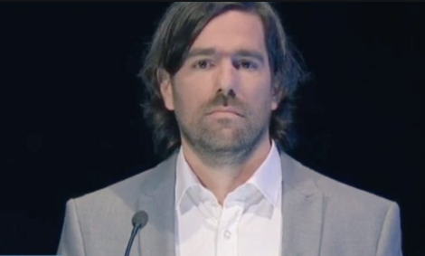 Nicolás del Caño pidiendo un minuto de silencio por los muertos en Ecuador